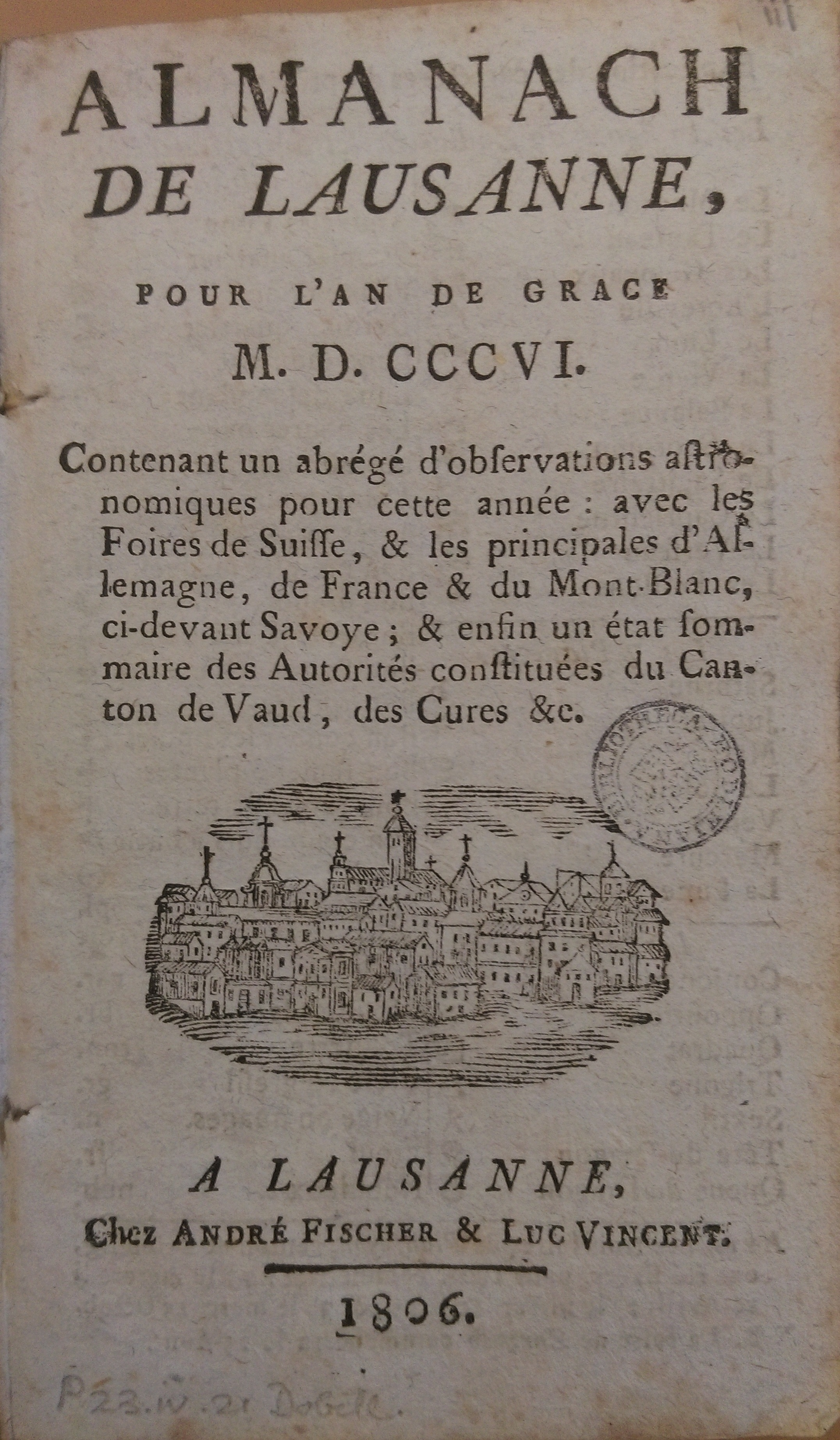 Lausanne1806-title by Maria Flaxman see Mike Webb's blog